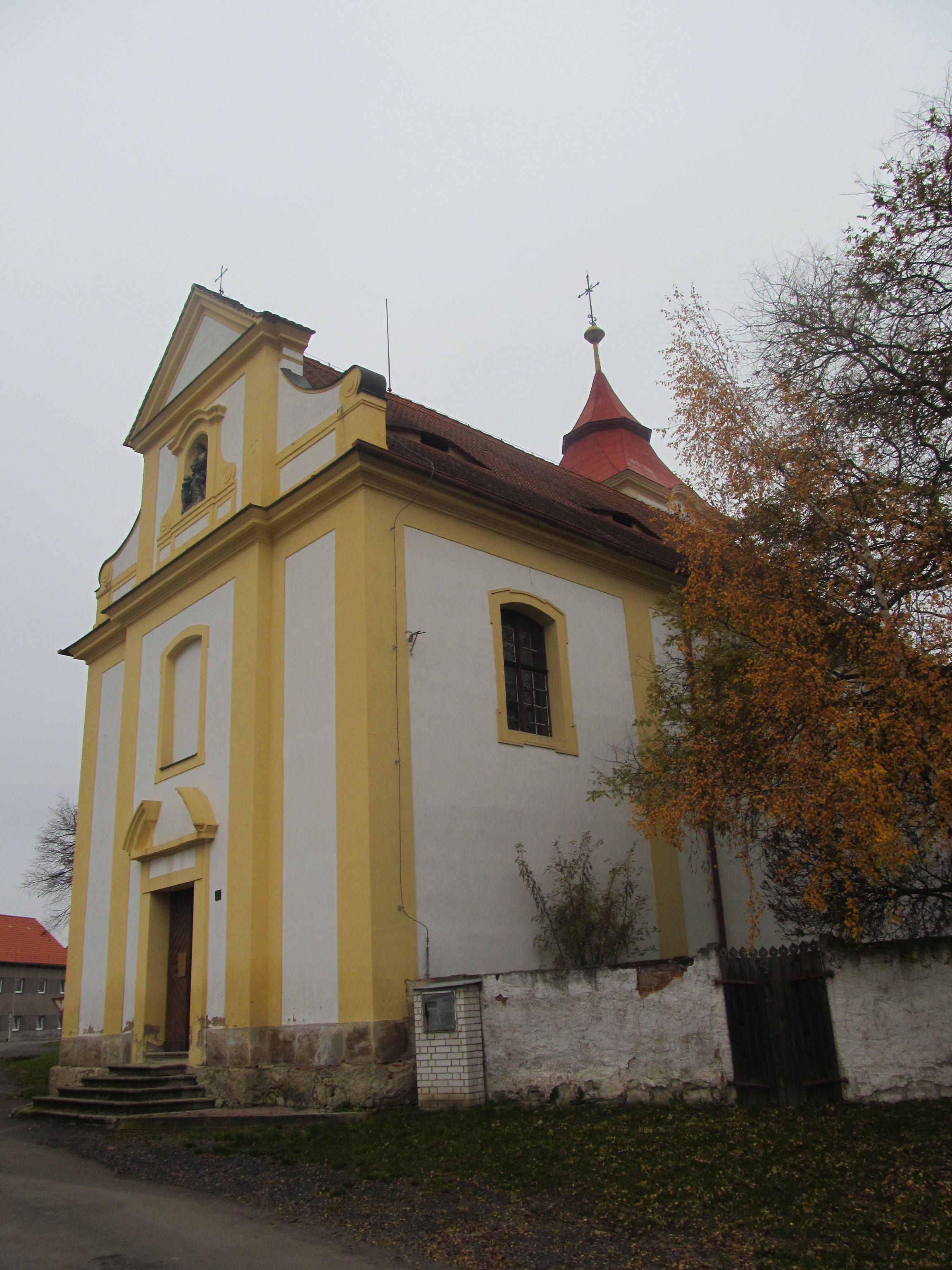 Church of the Assumption of the Virgin Mary (Opočno)